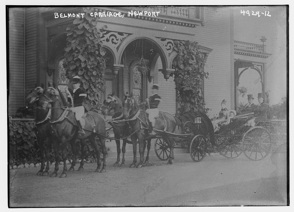 By the Sea, home of August Belmont in Newport, Rhode Island. Demolished 1946.